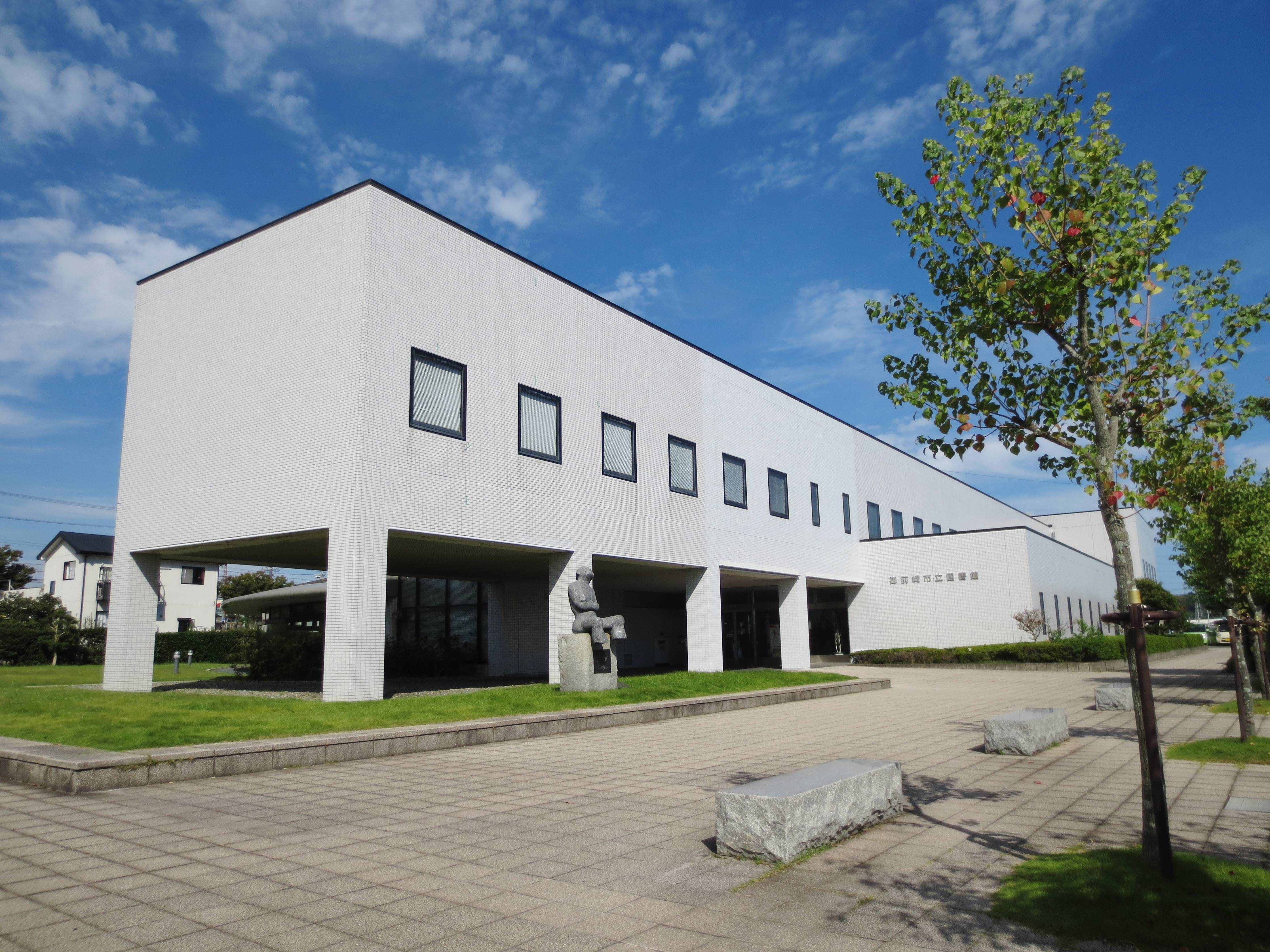 Omaezaki city library.